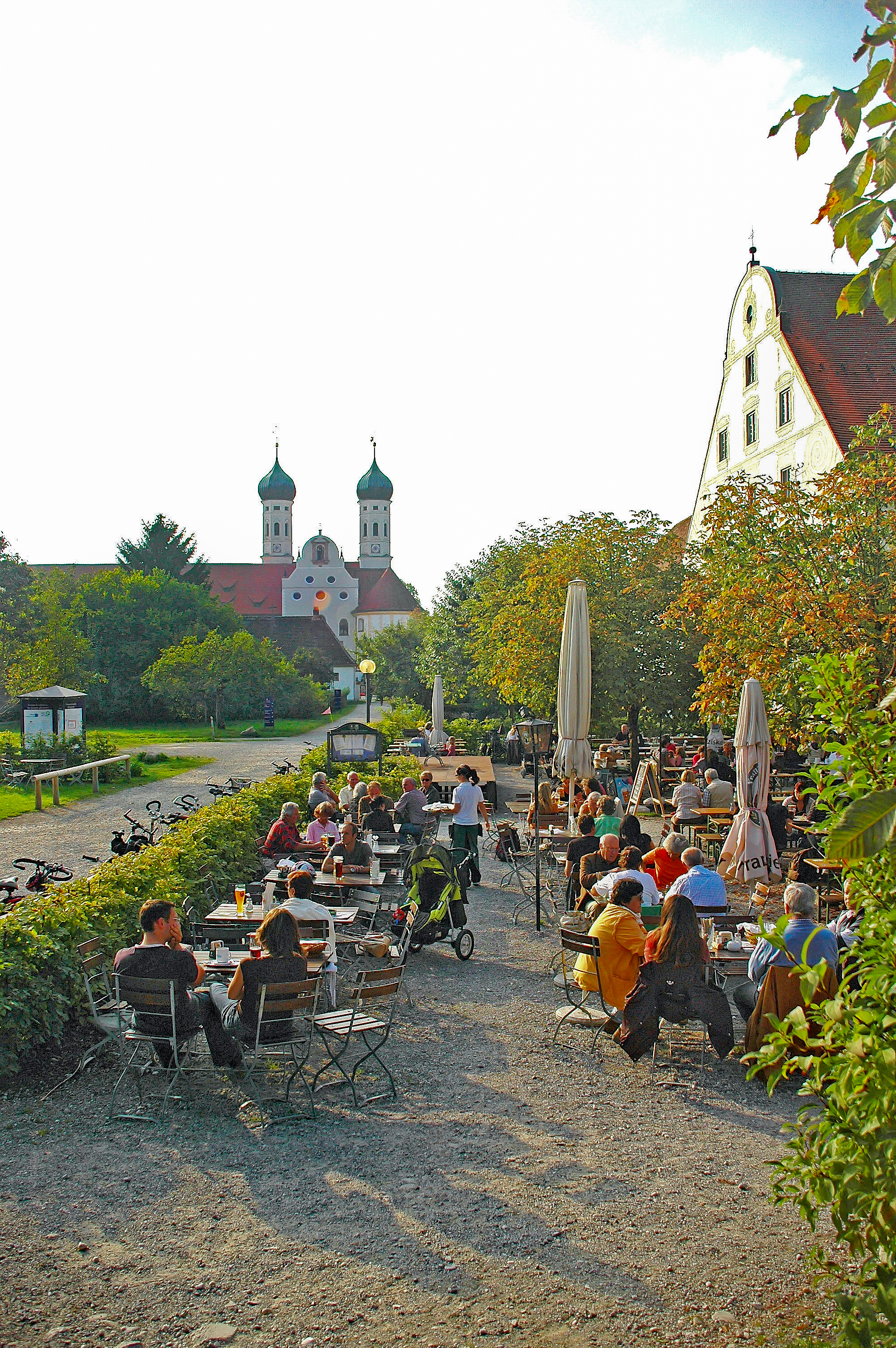 Benediktbeuern (Upper Bavaria) - Biergarden